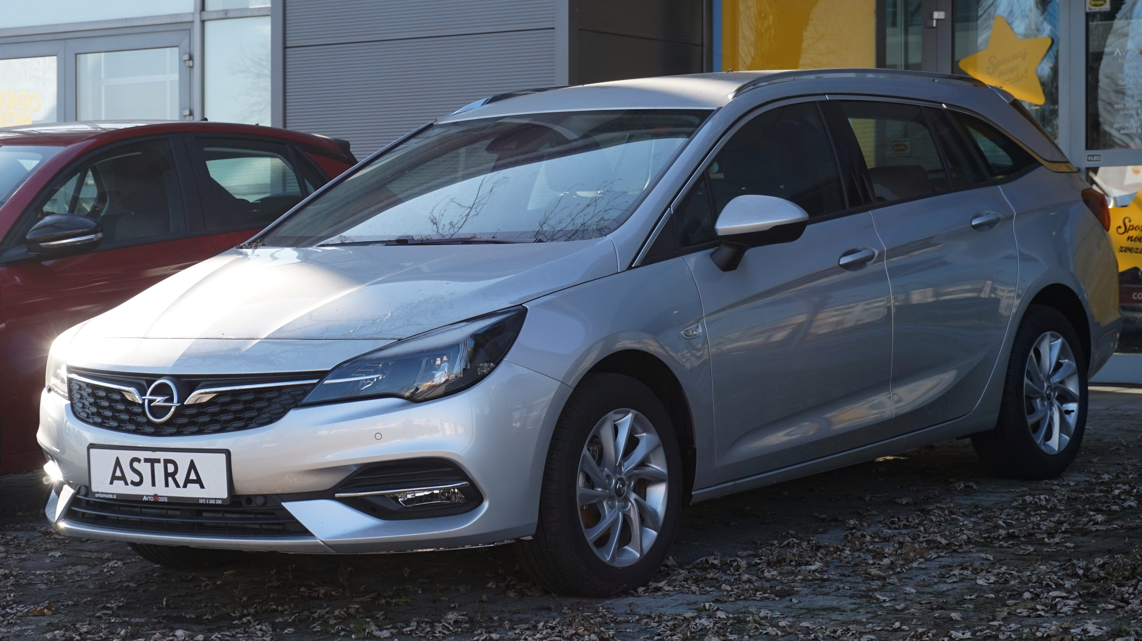 Opel Astra K, 2019 facelift